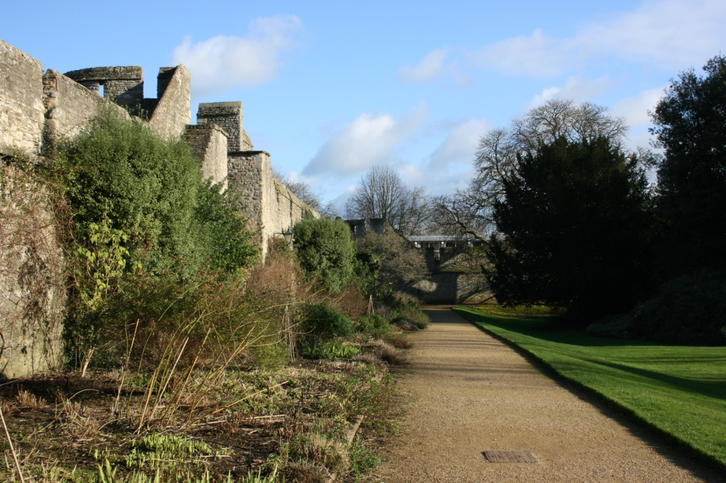 New College